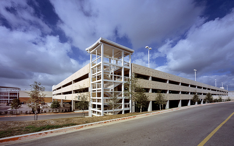 One of the parking deck's at the Mall.